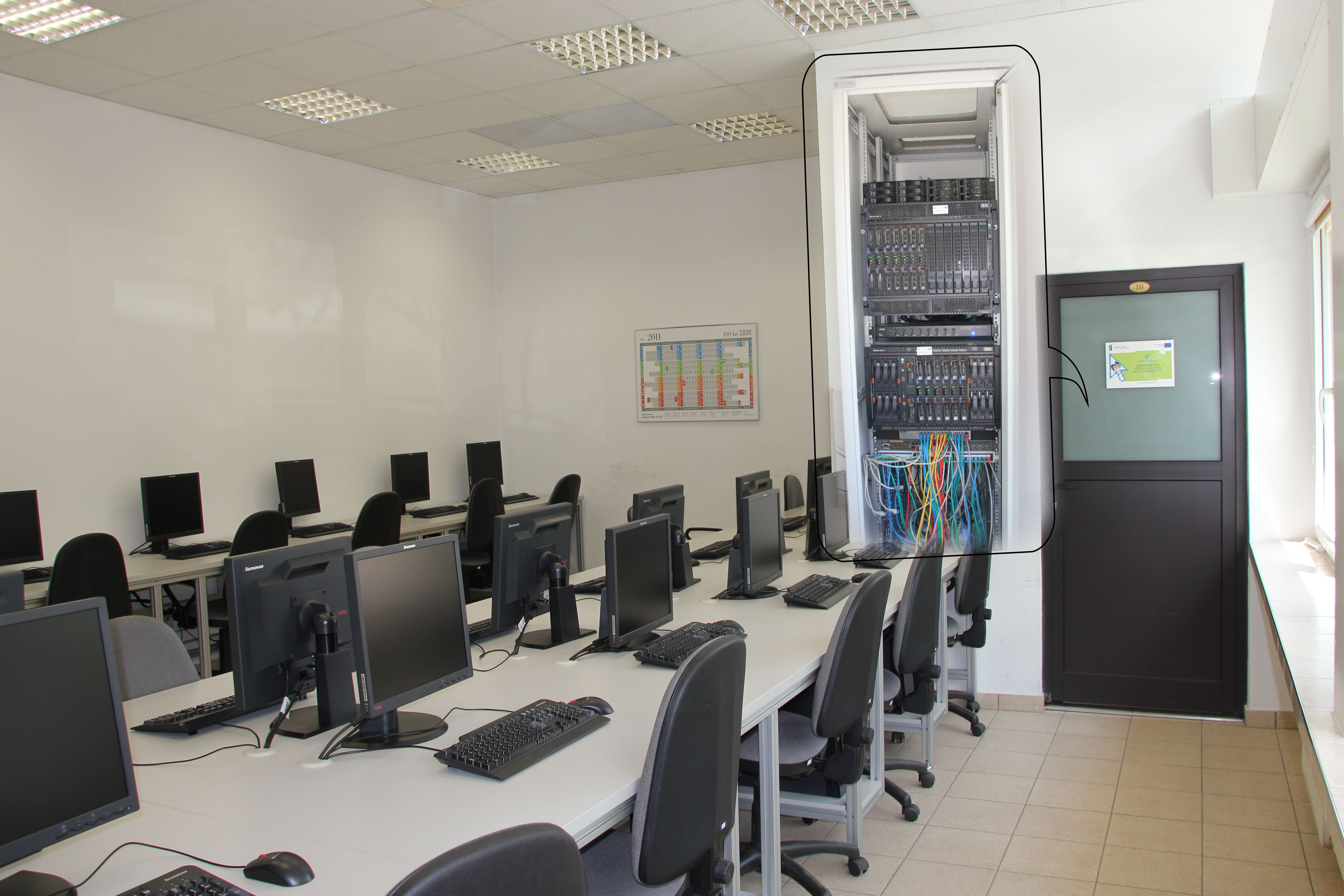 Data base laboratory - IMSI PŁ Poland